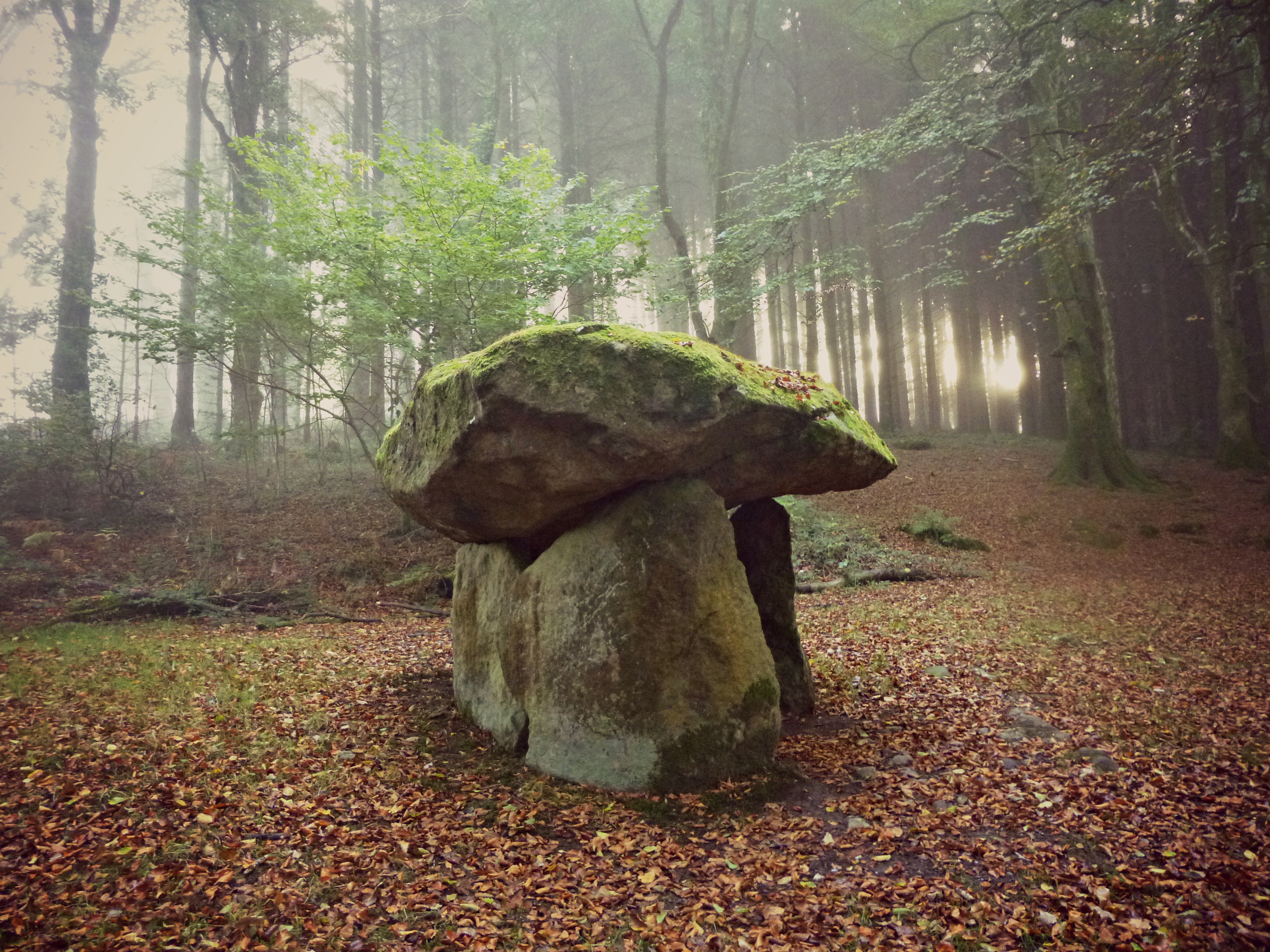 Dolwilym Burial Chamber goes by two names; Arthur's Table and Gwal y Filiast (which means 'Lair of the Greyhound Bitch').